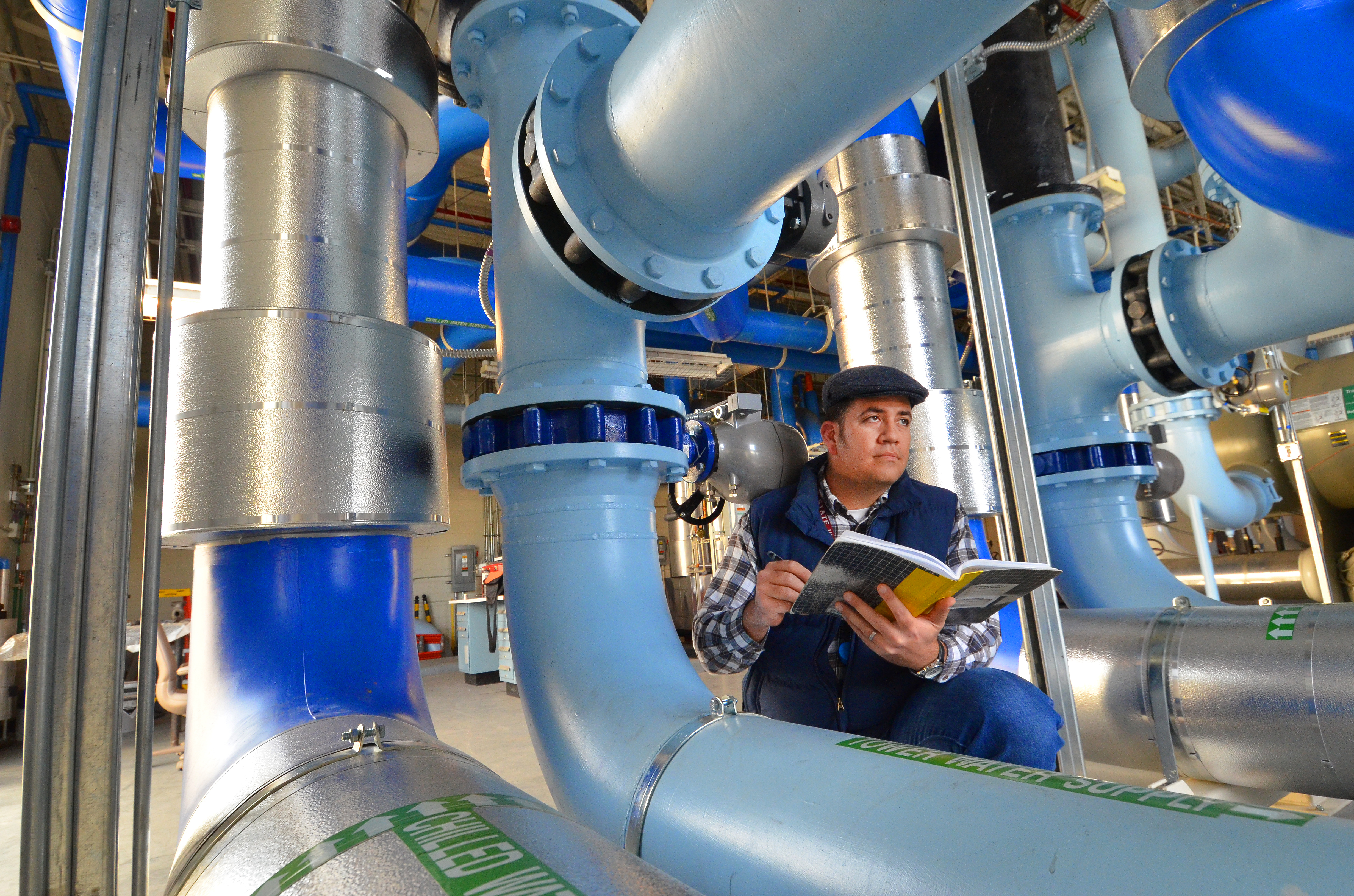 Sandia mechanical operations engineer checks out a heat exchange that's part of the labs' Free-Cooling System. Air Conditioning Repair Phoenix Free cooling has helped Sandia cut energy usage by more than 250 billion BTUs the past six years and reduce greenhouse gas emissions. Department of Energy photo